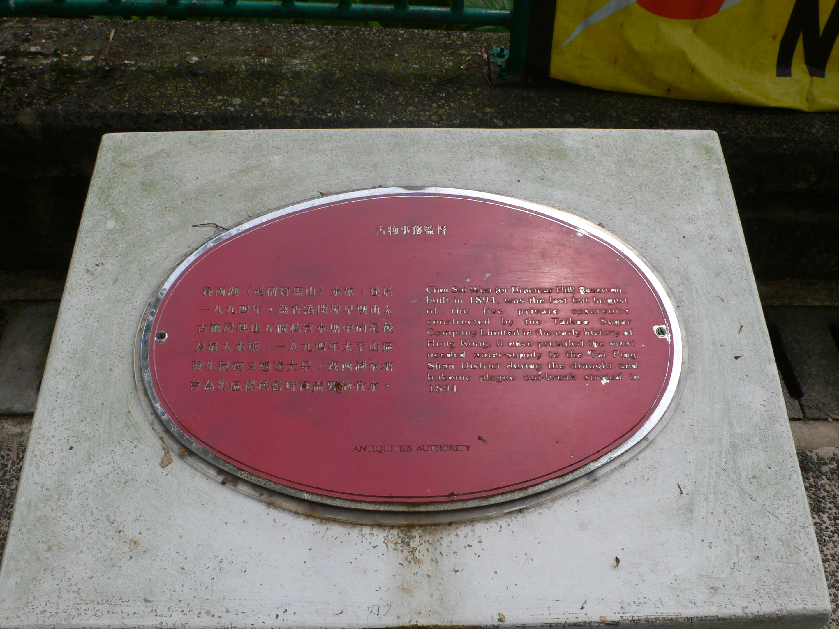 Information provided by Antiquities Authorities about Braemar Hill Reservoir in Choi Sai Woo Park, Hong Kong